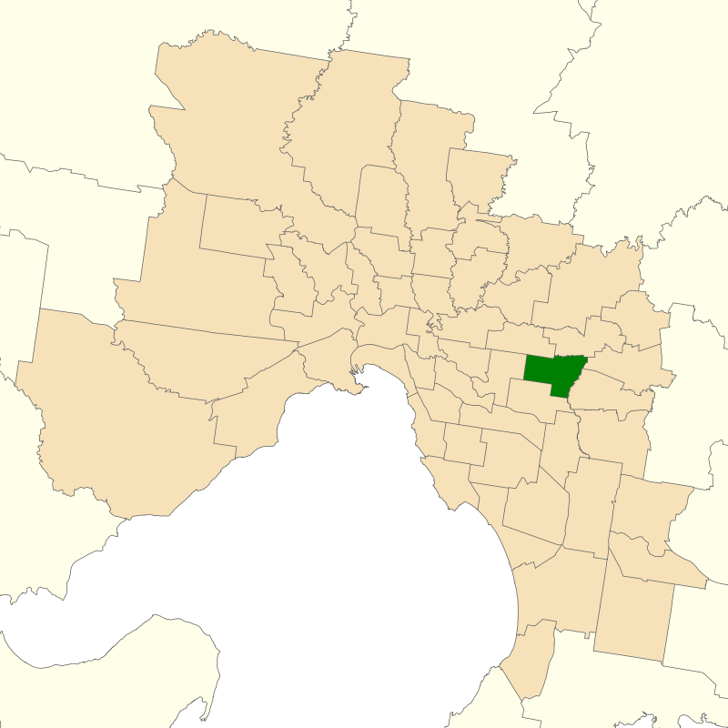 Location of the Victorian electoral district of Forest Hill (dark green) in the Greater Melbourne area.